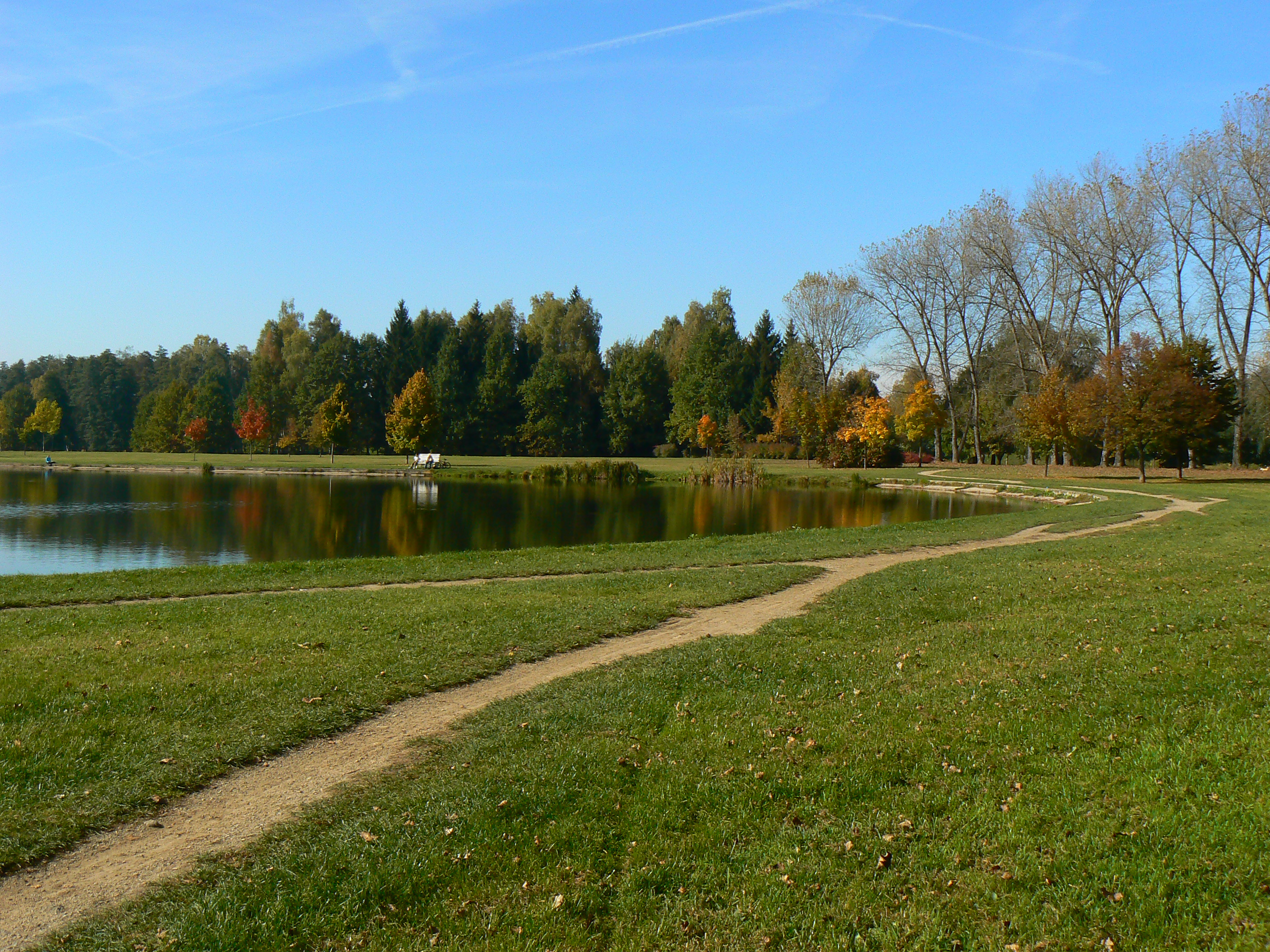 Bagr pond in Stromovka park in České Budějovice in autumn, Czech Republic